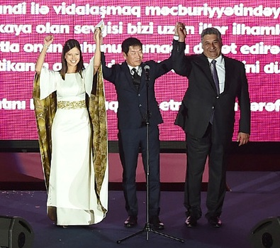 Yanina Batyrchina, Morinari Watanabe and Azad Rəhimov at the 37th FIG Rhythmic Gymnastics World Championships in Baku